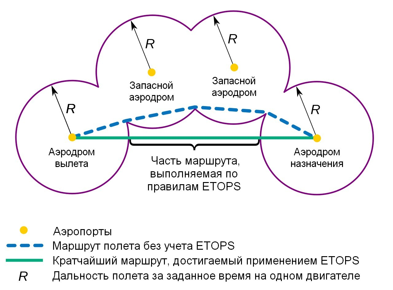 Adapted from ETOPS rating flight path